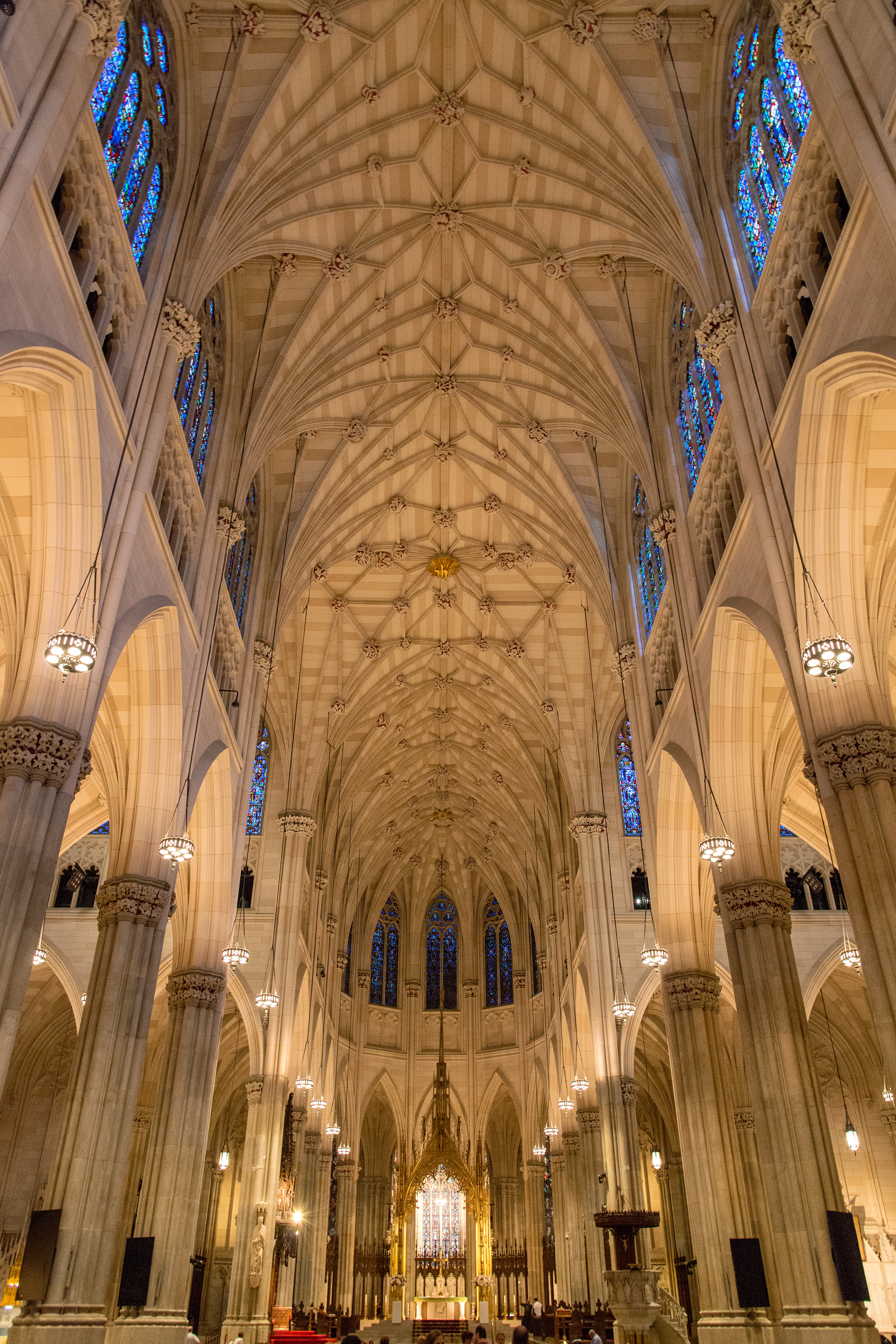 St. Patrick's Cathedral, May 25, 2016, interior, vertical, New York, NY